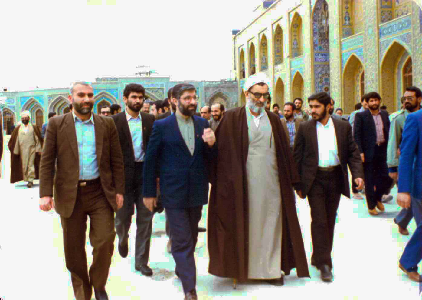 Mir Hossein Mousavi in Mashhad